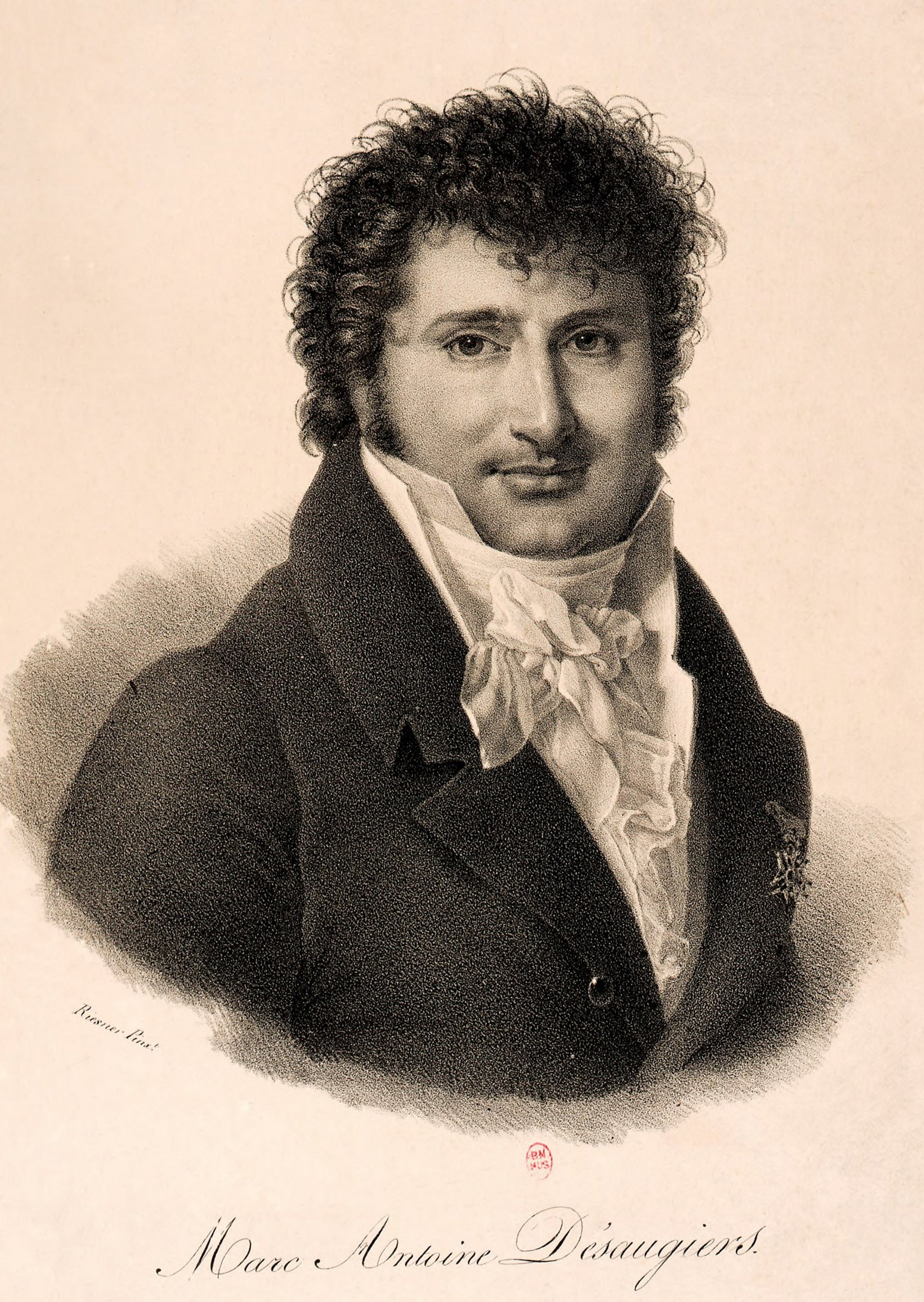 Marc-Antoine Désaugiers (1772-1827), French songwriter and playwright